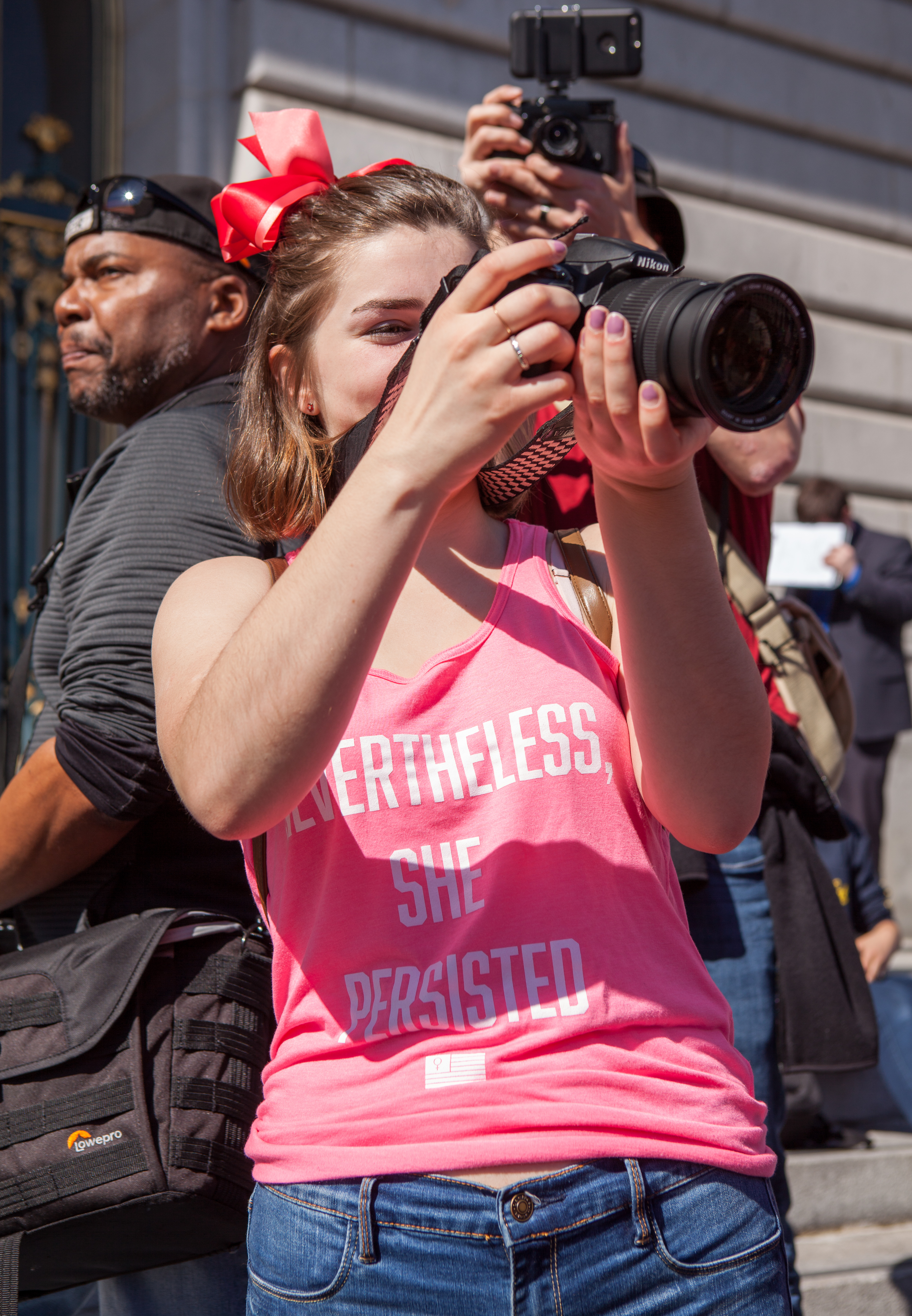 Attendee at an International Women’s Day rally "A Day Without a Woman" in San Francisco taking a photo. Her shirt reads "Nevertheless, she persisted".